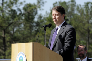 Paul Anastas speaking at a celebration of Earth Day's 40th anniversary. April, 2010.